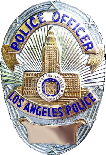 The badge of a police officer of the Los Angeles Police Department (LAPD), albeit with no badge number.